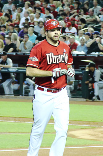 Josh Collmenter, 2011-06-19